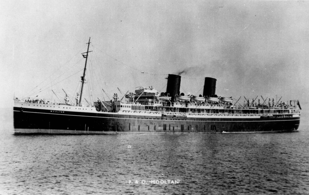 The P&O passenger liner RMS Mooltan, built in 1923 and scrapped in 1954